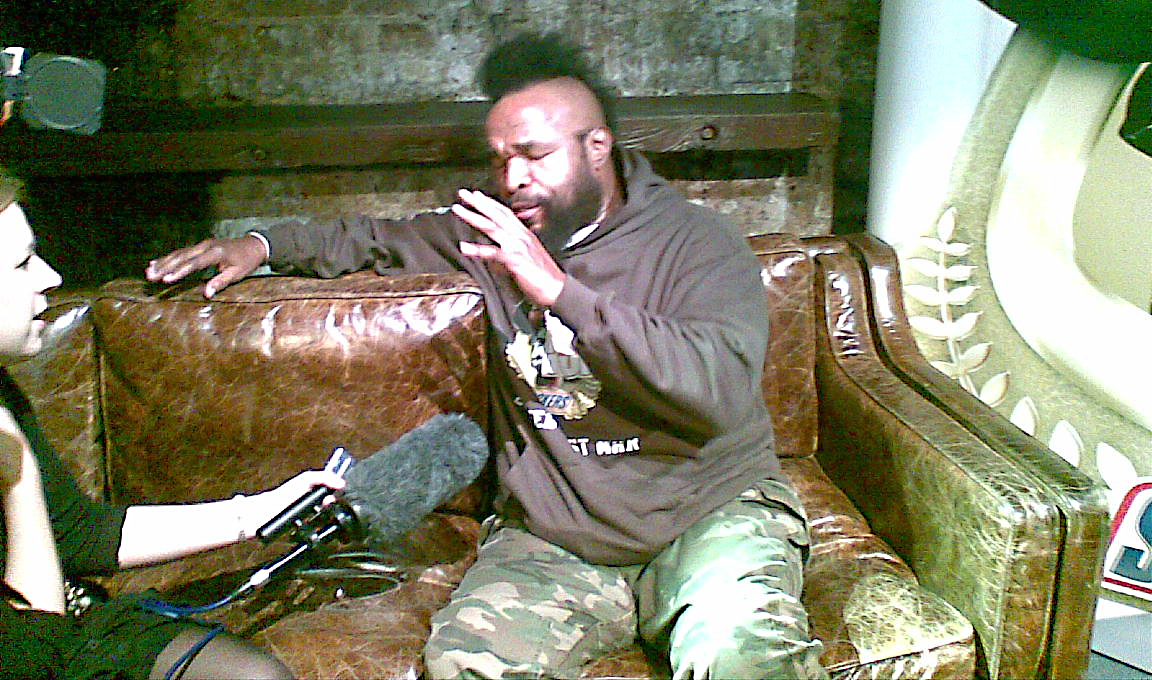 Mr. T being interviewed, London. From my London Underground Tube Diary